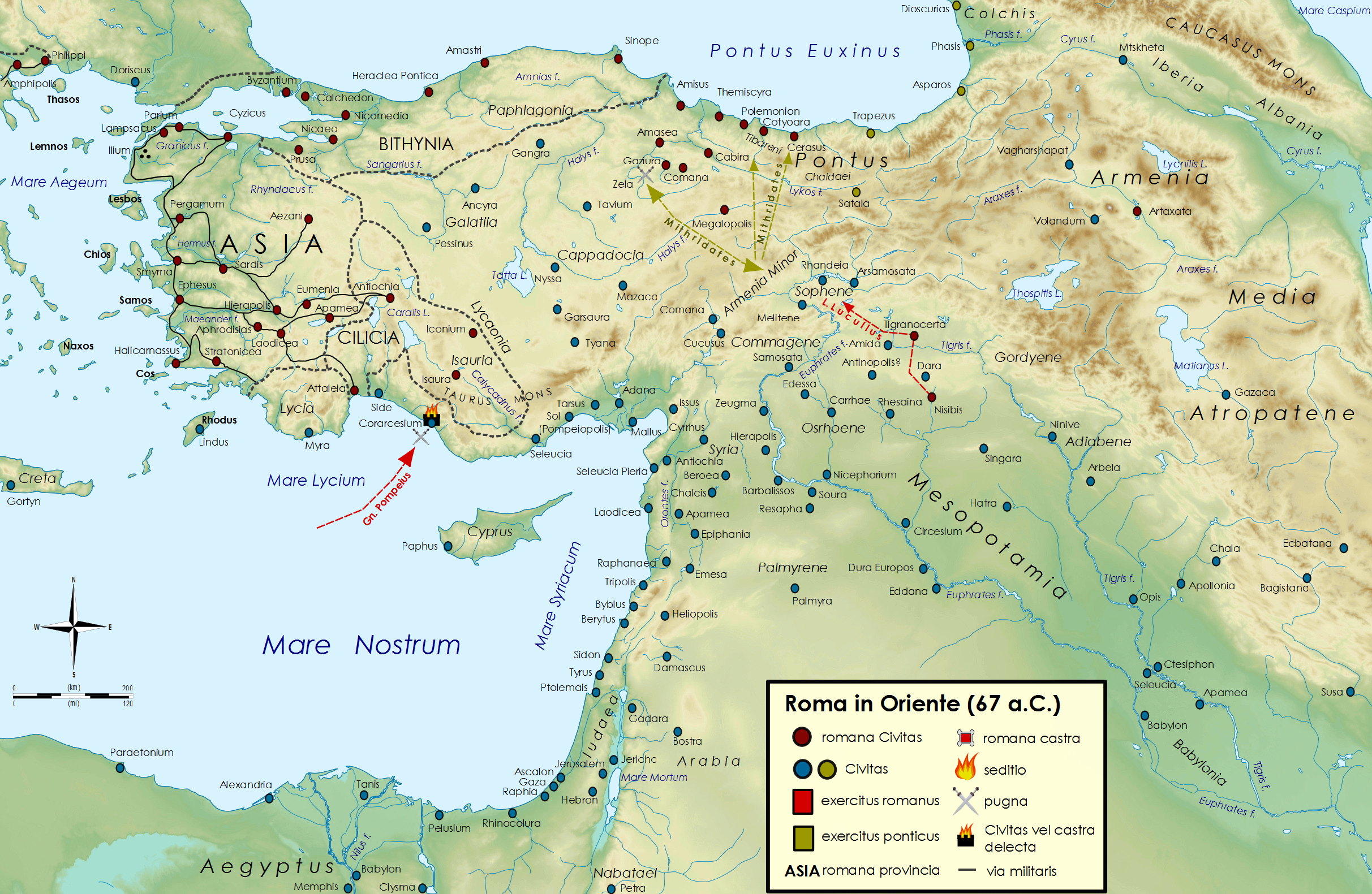 Roman republic in the Near East in 67 B.C., during the third Mithridatic War